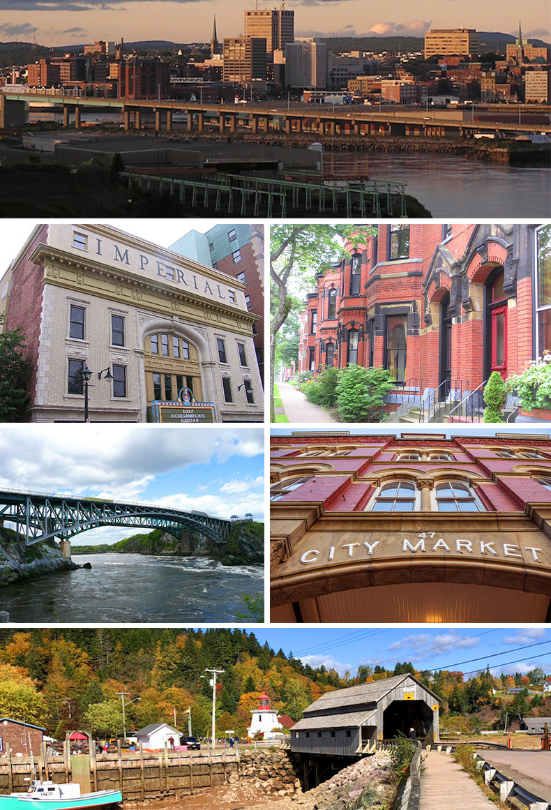 City collage photo from commons images.